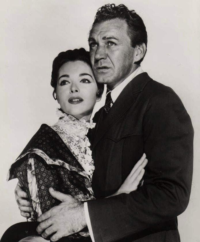 Joan Weldon & Forrest Tucker in the original US National Tour of the musical The Music Man - publicity still (original image damaged, modified and cropped : see source)